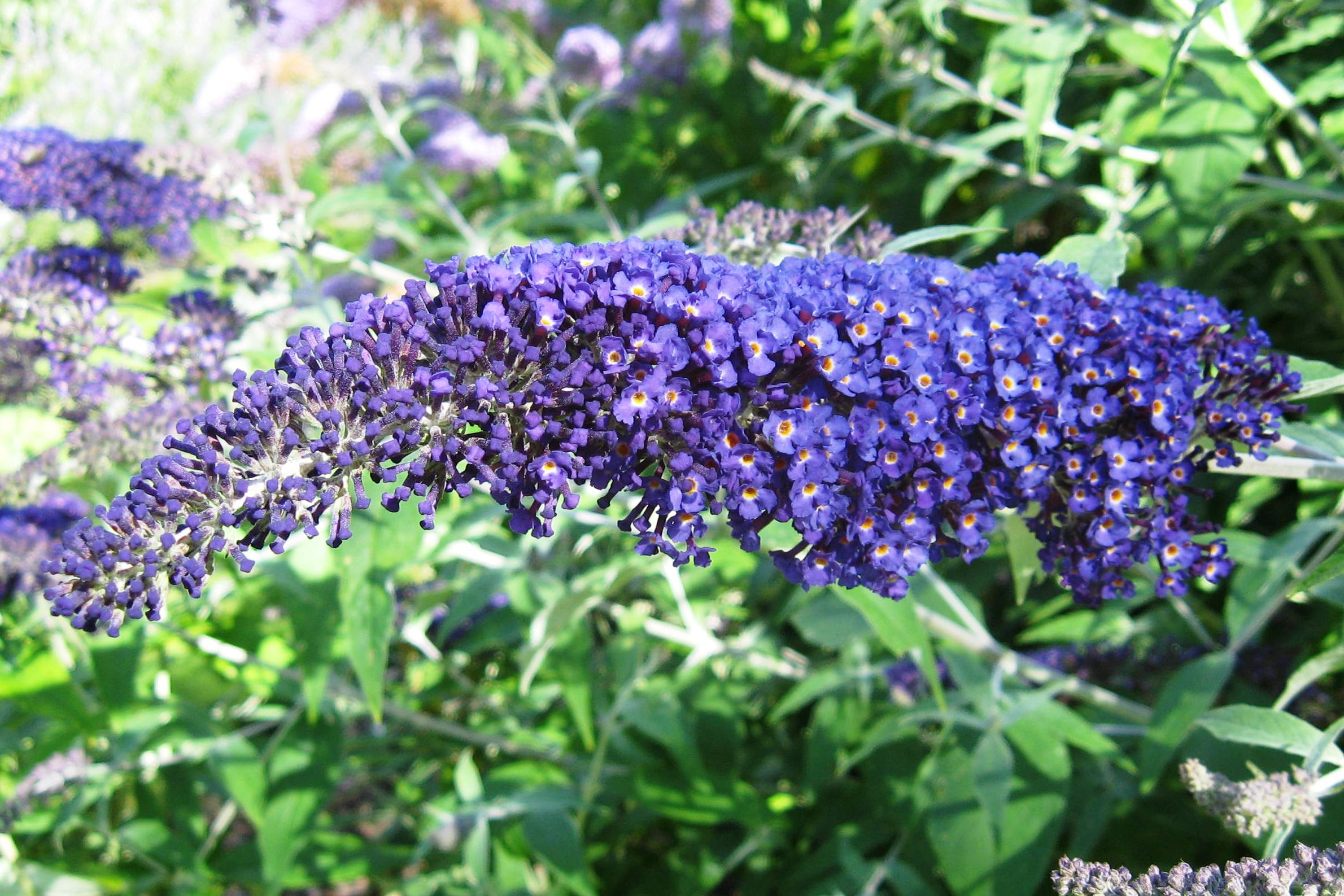 Photo of Buddleja cultivar 'Orpheus' taken at Longstock Park, UK, August 2012